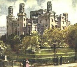 Old State Capitol of Louisiana